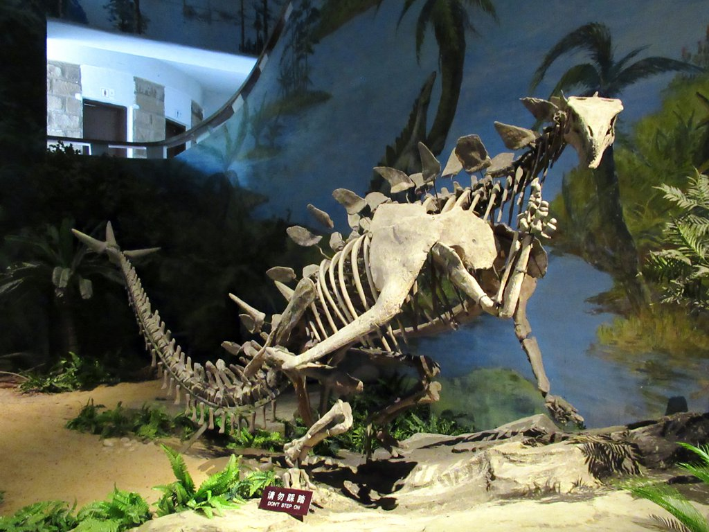 This Gigantspinosaurus sichuanensis displayed at the Zigong Dinosaur Museum near Zigong, China, roamed the earth 150 million years ago.